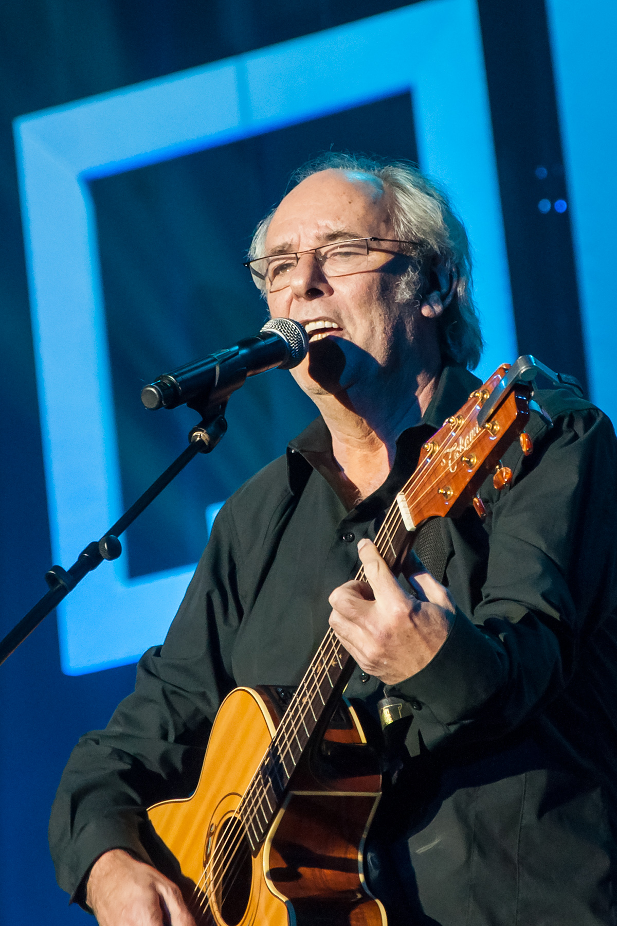 Maxime Le Forestier at Les Enfoirés 2013 in Palais omnisports de Paris-Bercy on 24th of January 2013.